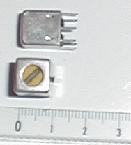 Intermediate frequency transformer (IF transformer) used in a transistor radio (top and side views). The screwdriver adjustment slot in the top moves the ferrite core in or out of the transformer, changing the mutual inductance between the transformer windings.